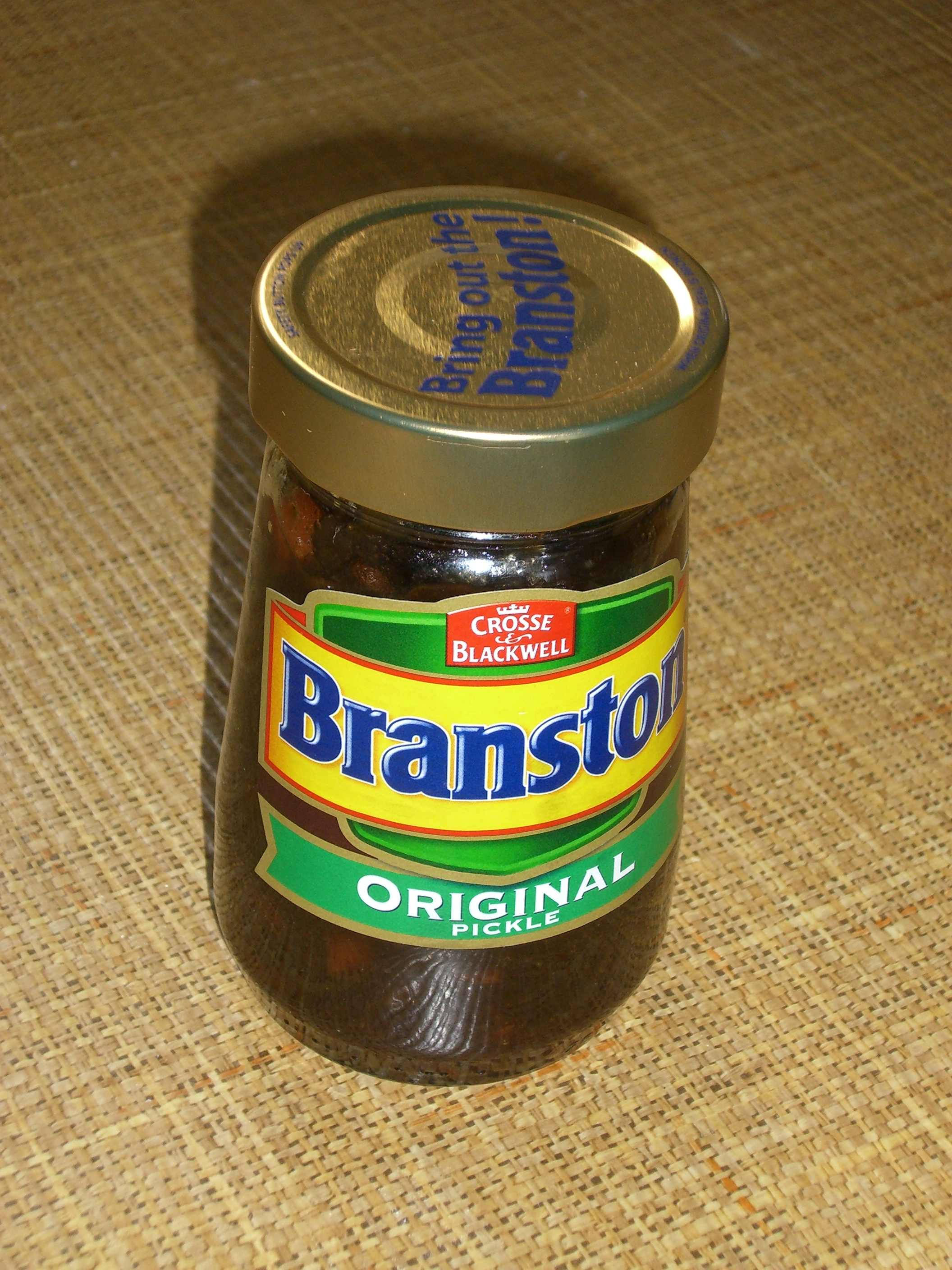 Branston Pickle jar Photo taken by User:Edward on 12th April 2006 using a Casio EX-S600.